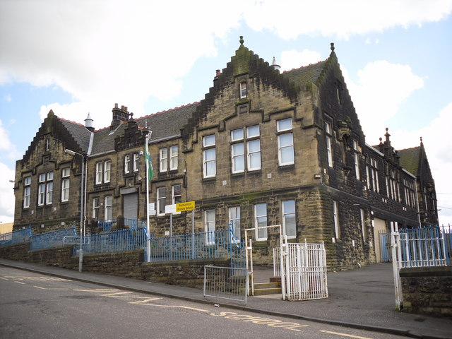 Rochsolloch Primary School in Airdrie